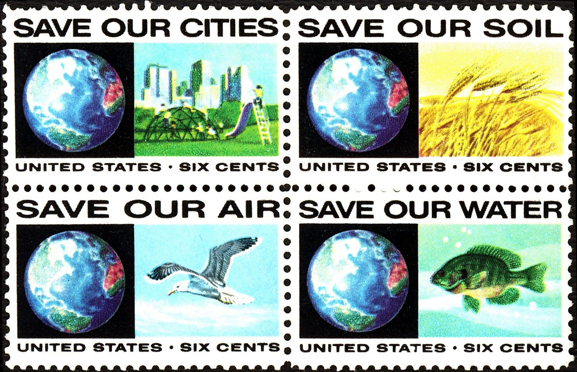 6c City Park. Prevention of Pollution 1970